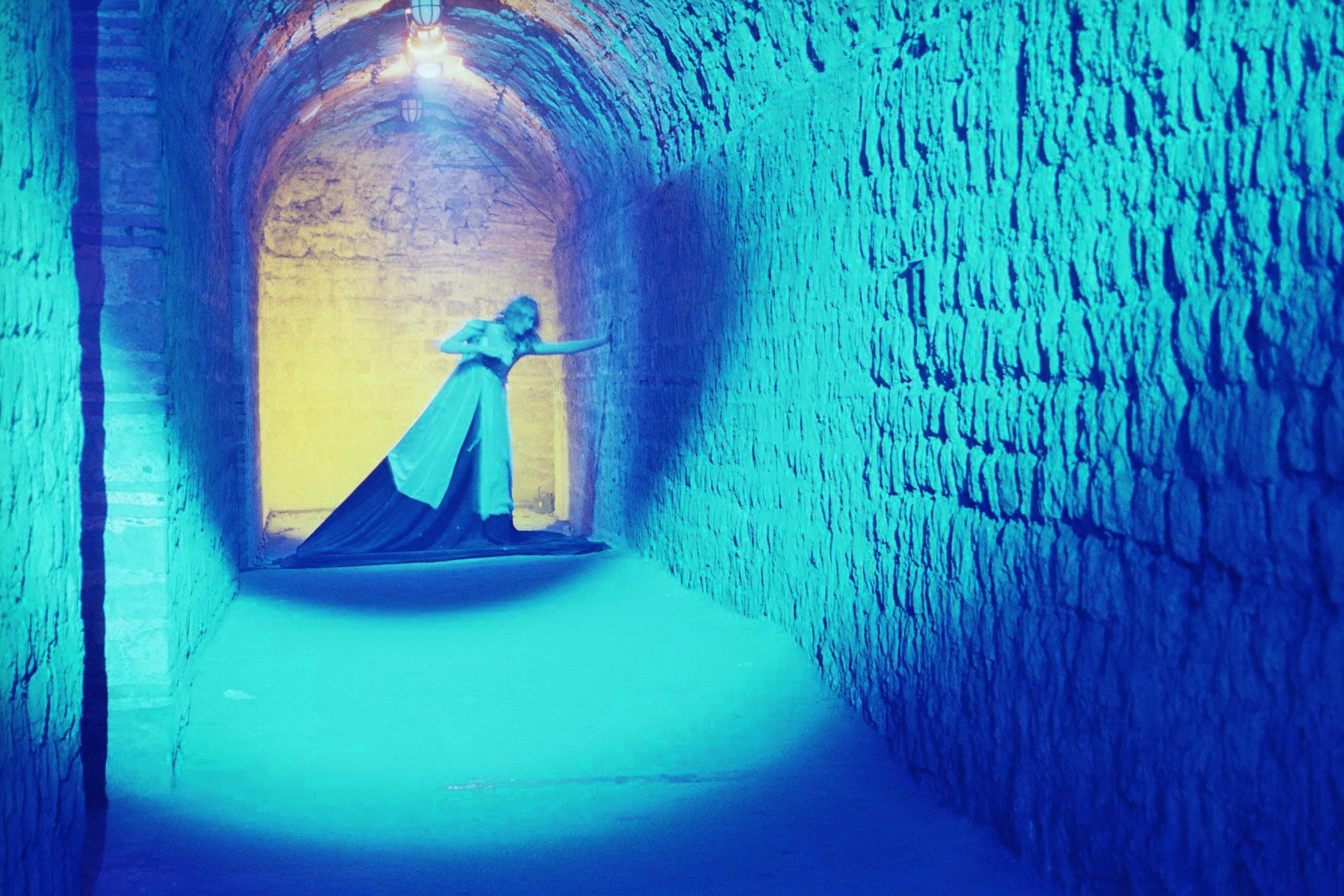 Brot und Spiele Trier, mystische Nacht (mystic night at the Roman festival Brot und Spiele in Trier)